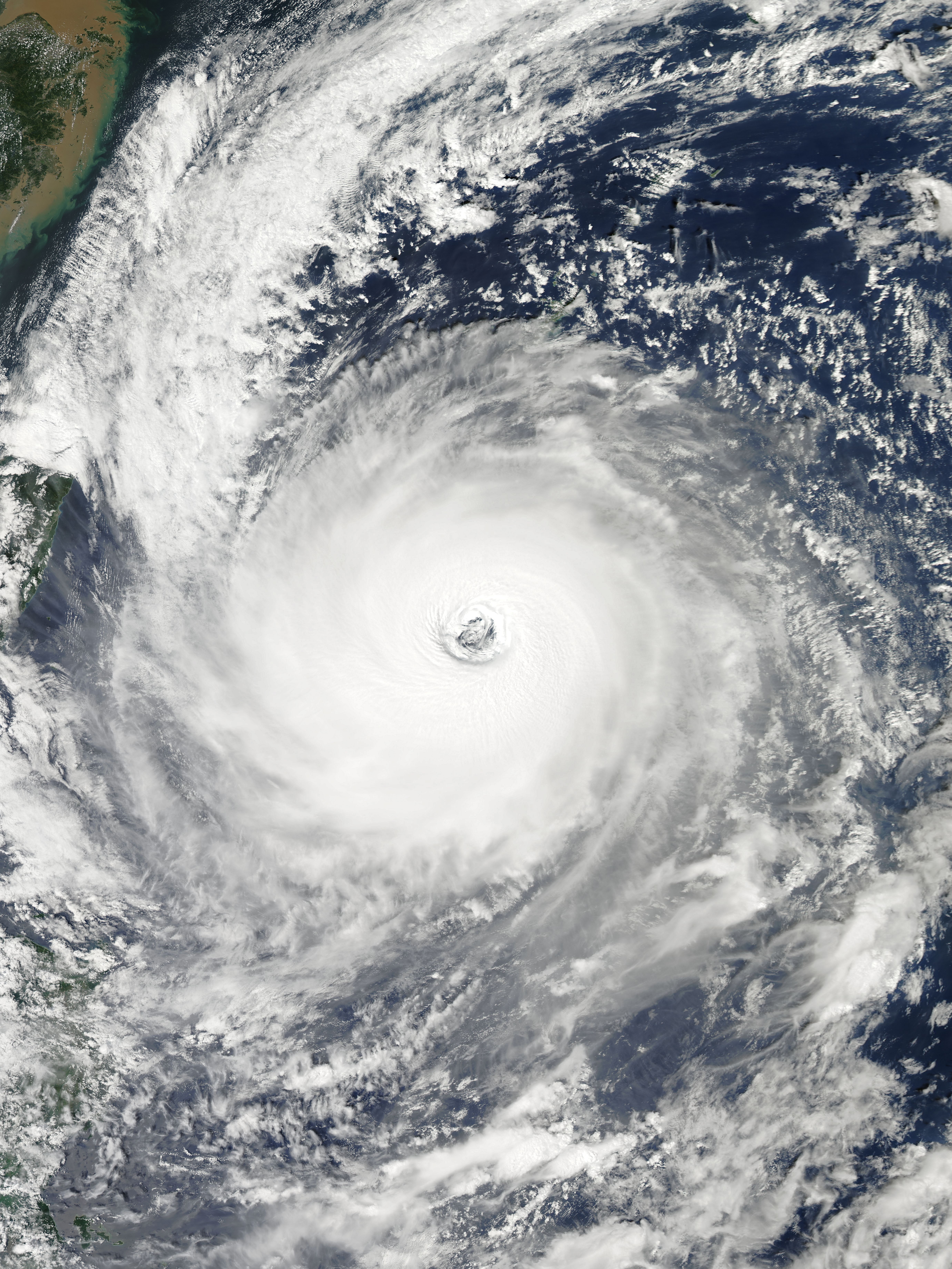 Typhoon Dujuan approaching Taiwan on September 27, 2015.